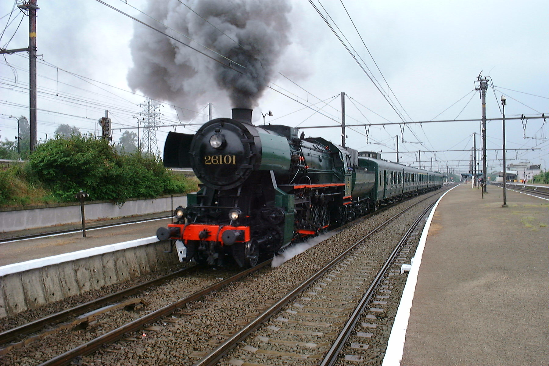 After the Second World War, Belgian railways obtained 100 Class 26 locomotives of 2-10-0 type for freight duty, of a popular German design. Sadly, none of these machines survived into preservation. However, the railway conservation organisation TSP-PFT acquired a similar loco in Poland, restored it to Belgian standards, and now uses it for special trains as 26101. Pictured here in Mechelen, June 2000.